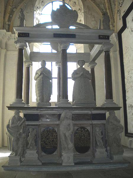 Grave of Carl Carlsson Gyllenhielm (extramarital son of King Carl IX) in Strängnäs Cathedral, as released by image creator RistessonPlace: Strängnäs, Sweden